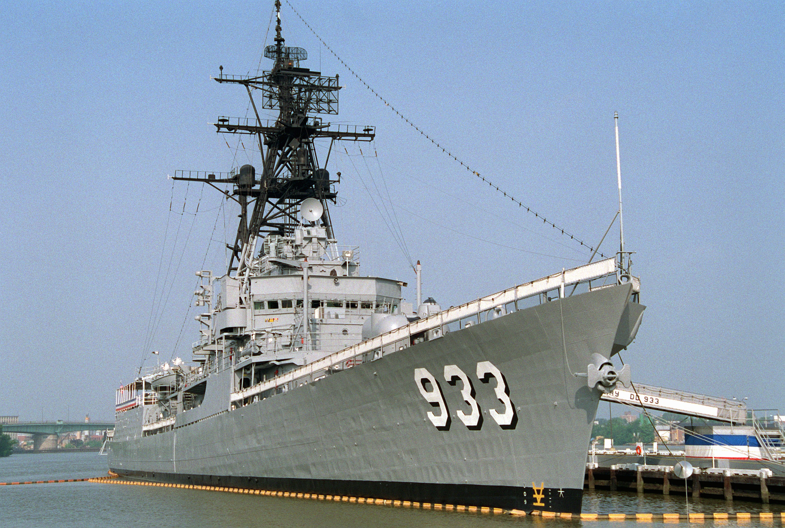 The U.S. Navy museum ship USS Barry (DD-933) tied up at pier two at the Washington Navy Yard, Washington D.C. (USA). The ship was permanently moored here in 1983 and dedicated to all those who have served their country with duty at sea.